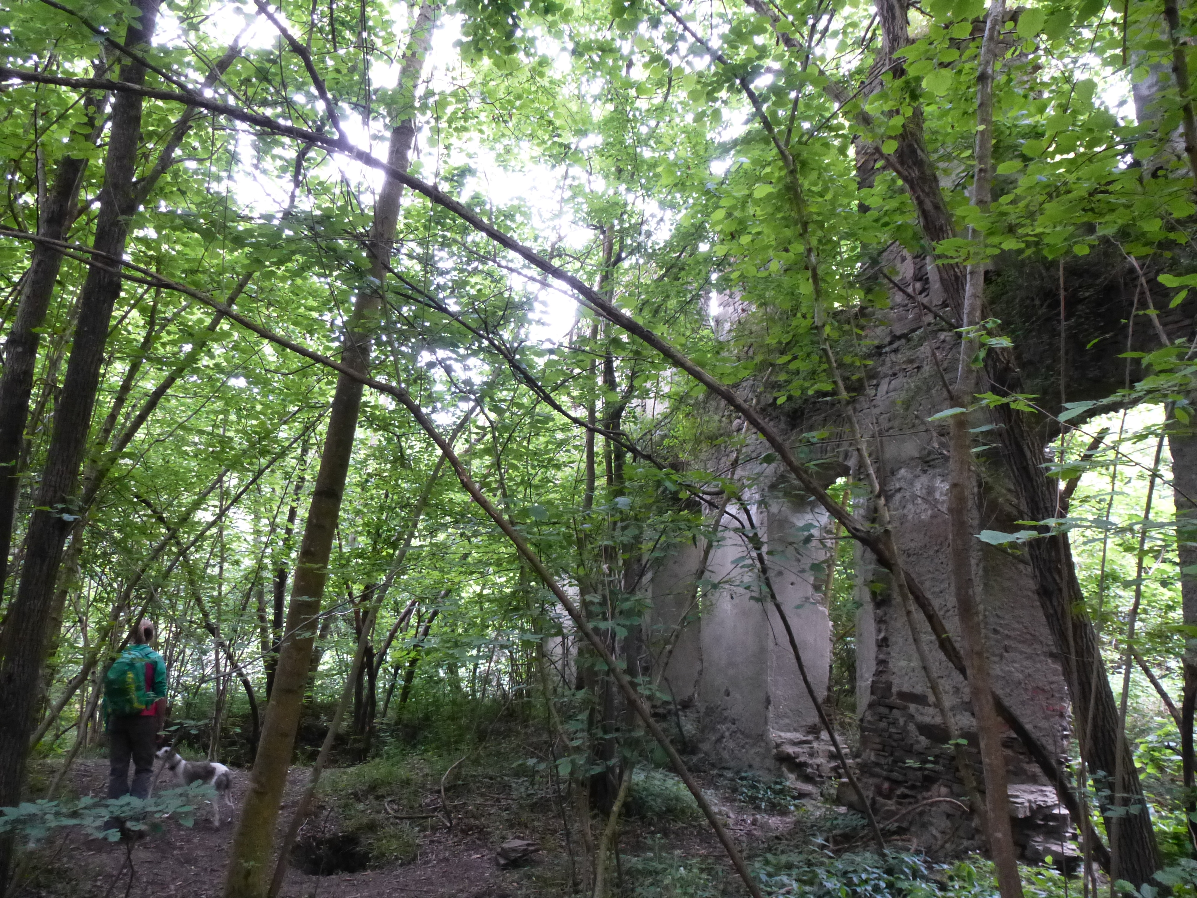 Ruins of the former Carmelites convent Toenesstein (aka Sankt Antoniusstein), established in 1465, in the wood land near Toenisstein, Rhineland-Palatinate, Germany